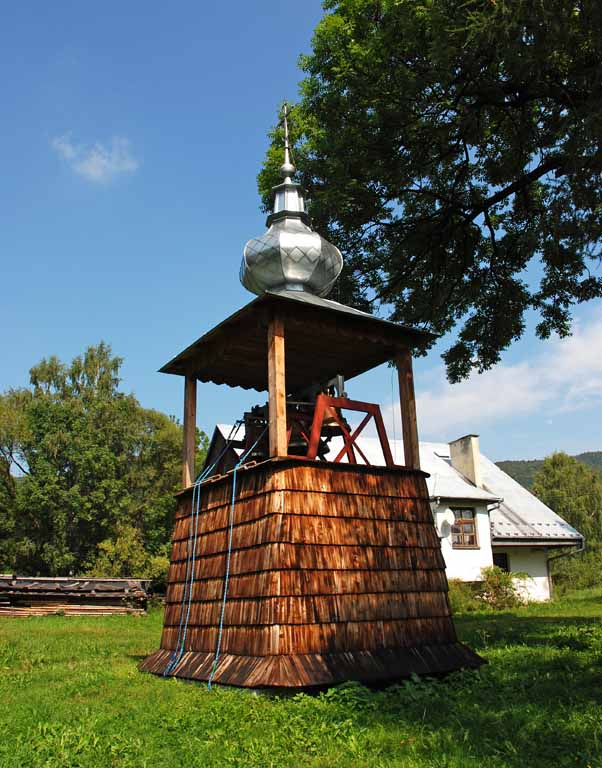 Bogusza Niżna (Poland), Greek Catholic church